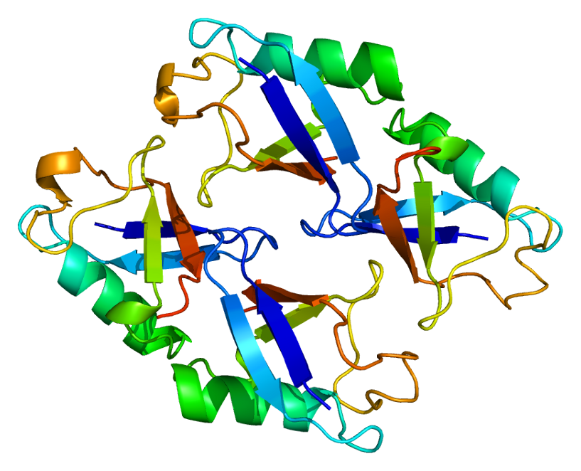 Structure of the NEDD8 protein. Based on PyMOL rendering of PDB 1ndd.